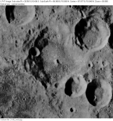 LO-II-196M Dreyer is in the center. The prominent satellite features arrayed around it are Dreyer W in the upper left, C in the upper right, and J and K in the lower right.